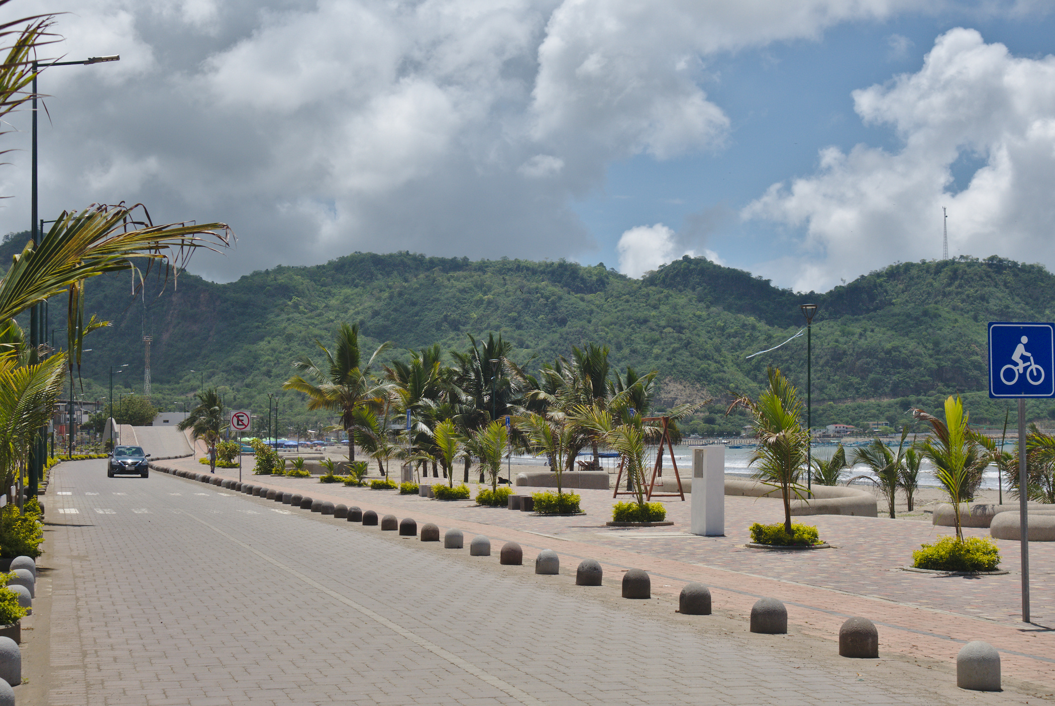 The new Malecón of Puerto López, finished in late 2016.